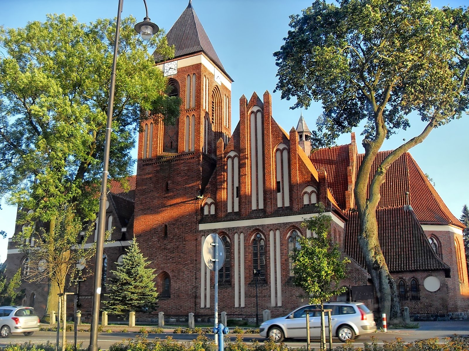 Mary Magdalene church in Czersk, Pomeranian Voivodeship